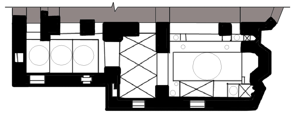 Pammakaristos Church. Plan of parekklesion - museum with mosaics. Other part of the building is close for tourists and belongs to functioning mosque Fetiye camii.